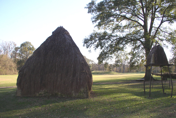 A photo taken at the Grand Village of the Natchez, showing the mounds and a reconstructed wattle and daub stucture.